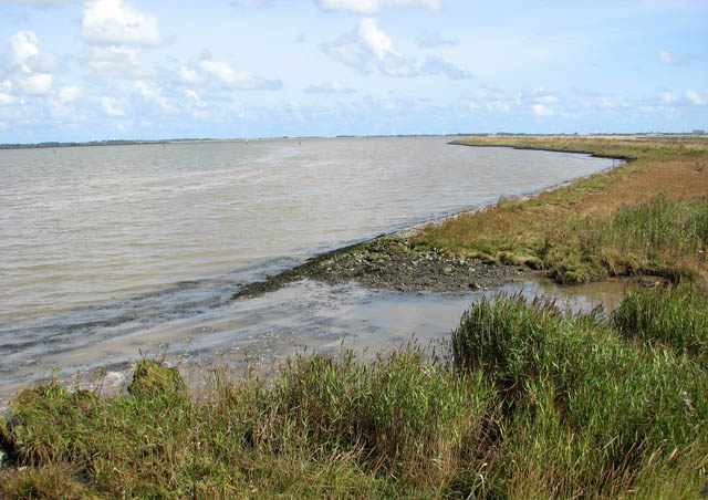 Breydon Water Breydon Water is a wide tidal estuary with origins more associated with the sea than peat extraction. The 5km expanse is a designated Nature Reserve of international importance to migratory birds, managed by the Royal Society for the Protection of Birds (RSPB). The Angles Way long distance footpath leads past it.